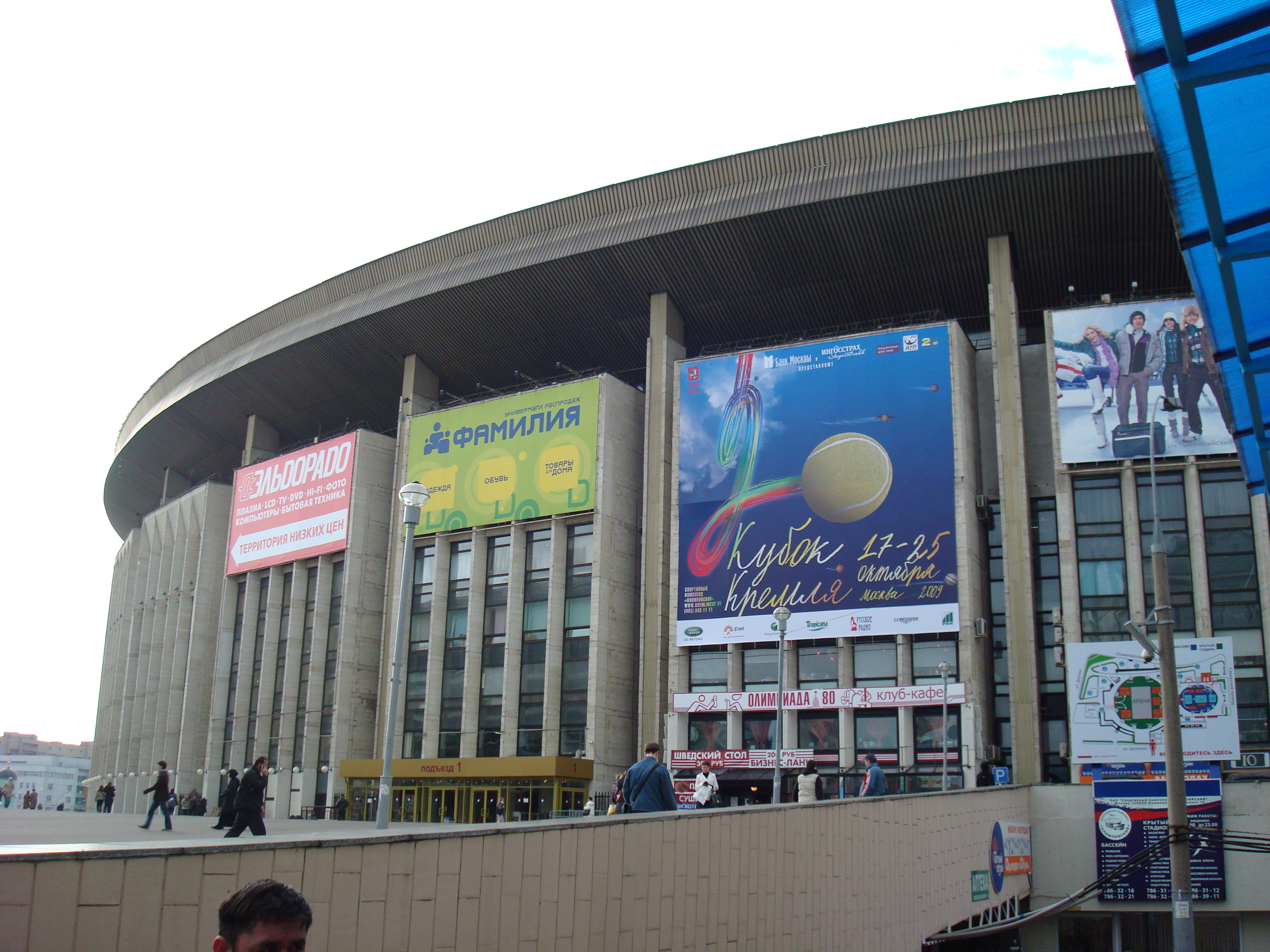 Overview of Olimpiisky stadium during 2009 Kremlin Cup